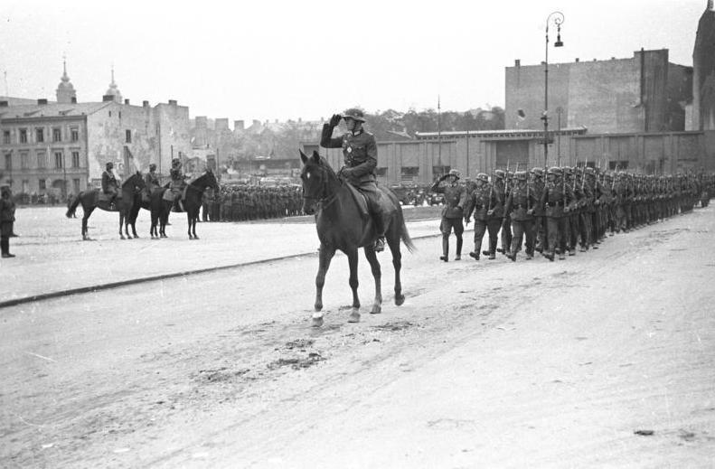 Warsaw during World War II